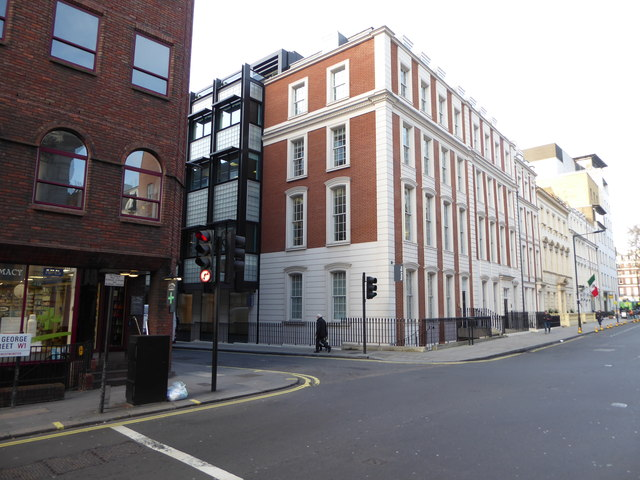 View of St George's Street, Mayfair, London